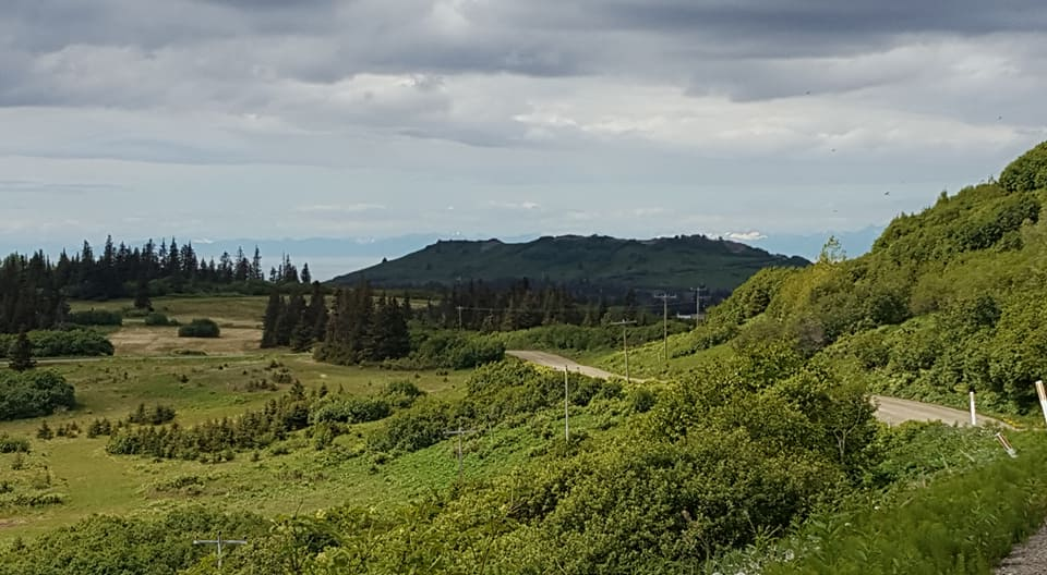 Ohlson Mountain, a former cold war radar site and landmark outside of Homer, Alaska